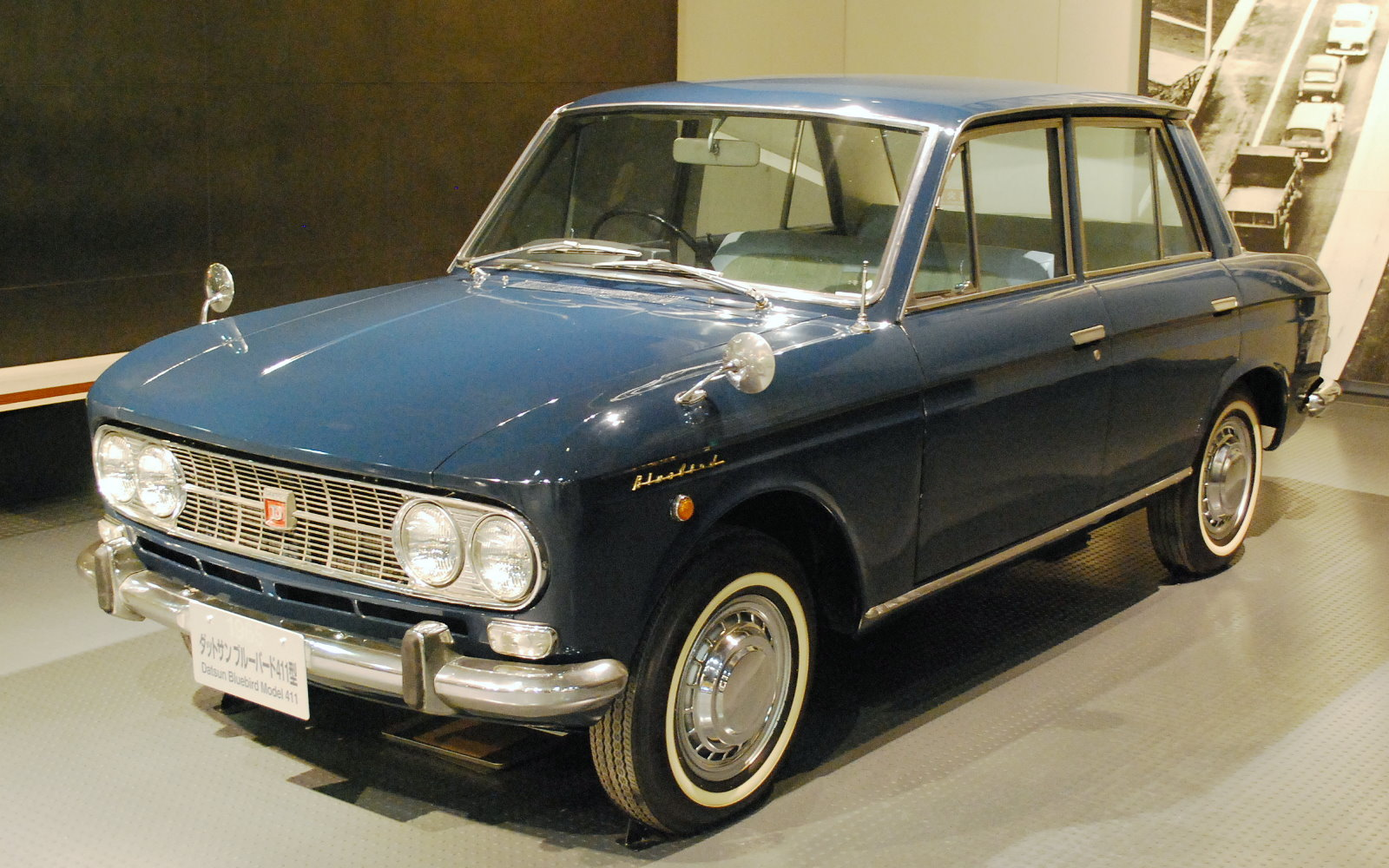 2nd generation Datsun_Bluebird Model 411 (1965/5 - 1967/8)